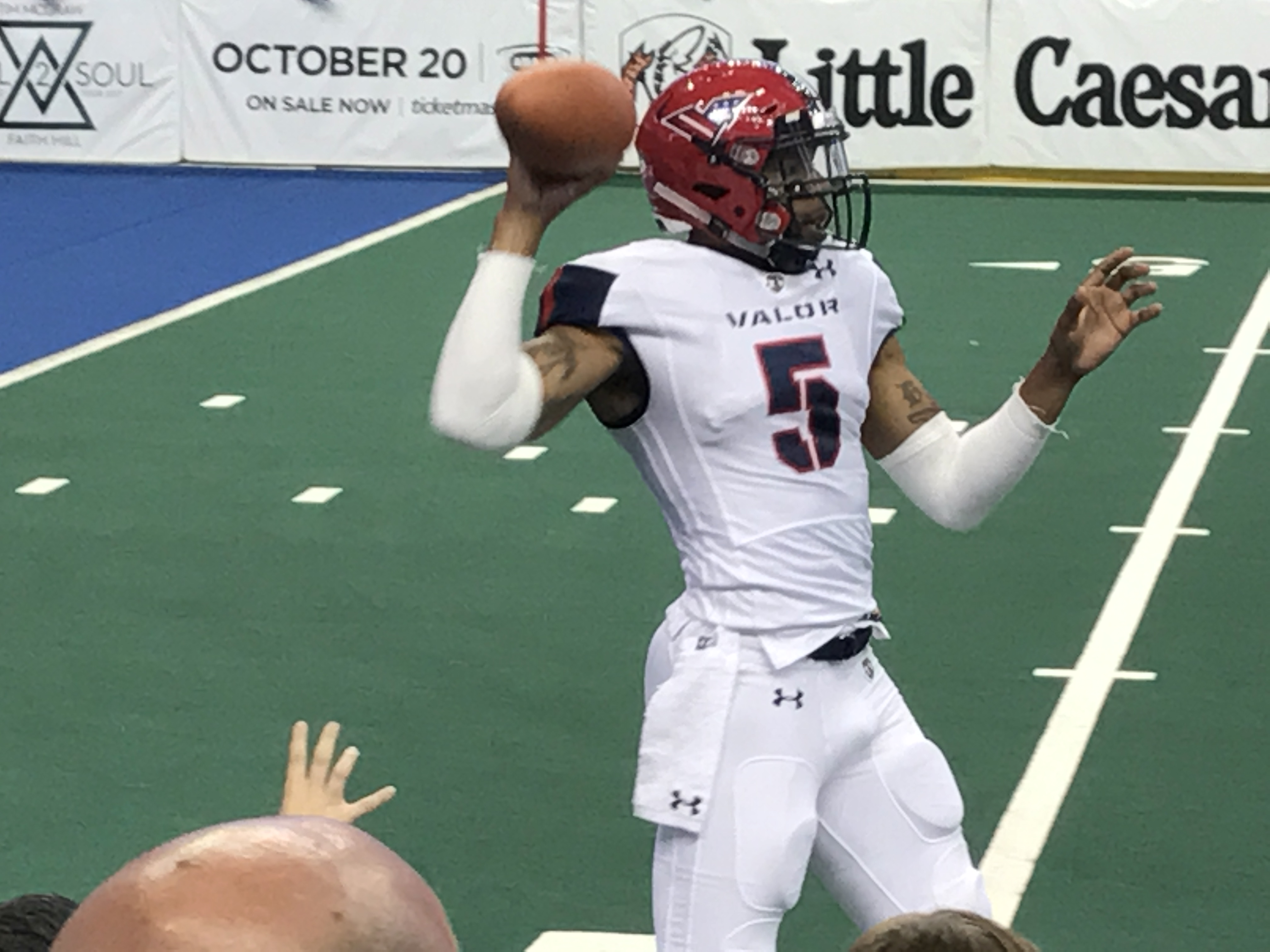 Bernard Morris warming up